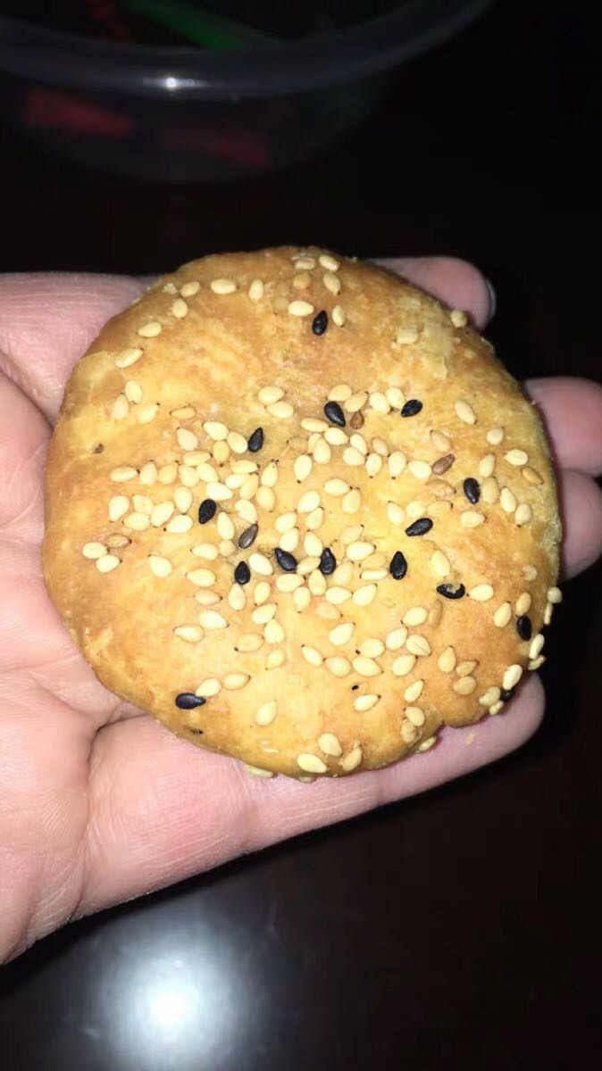 with minced pork and dried vegetable filling.